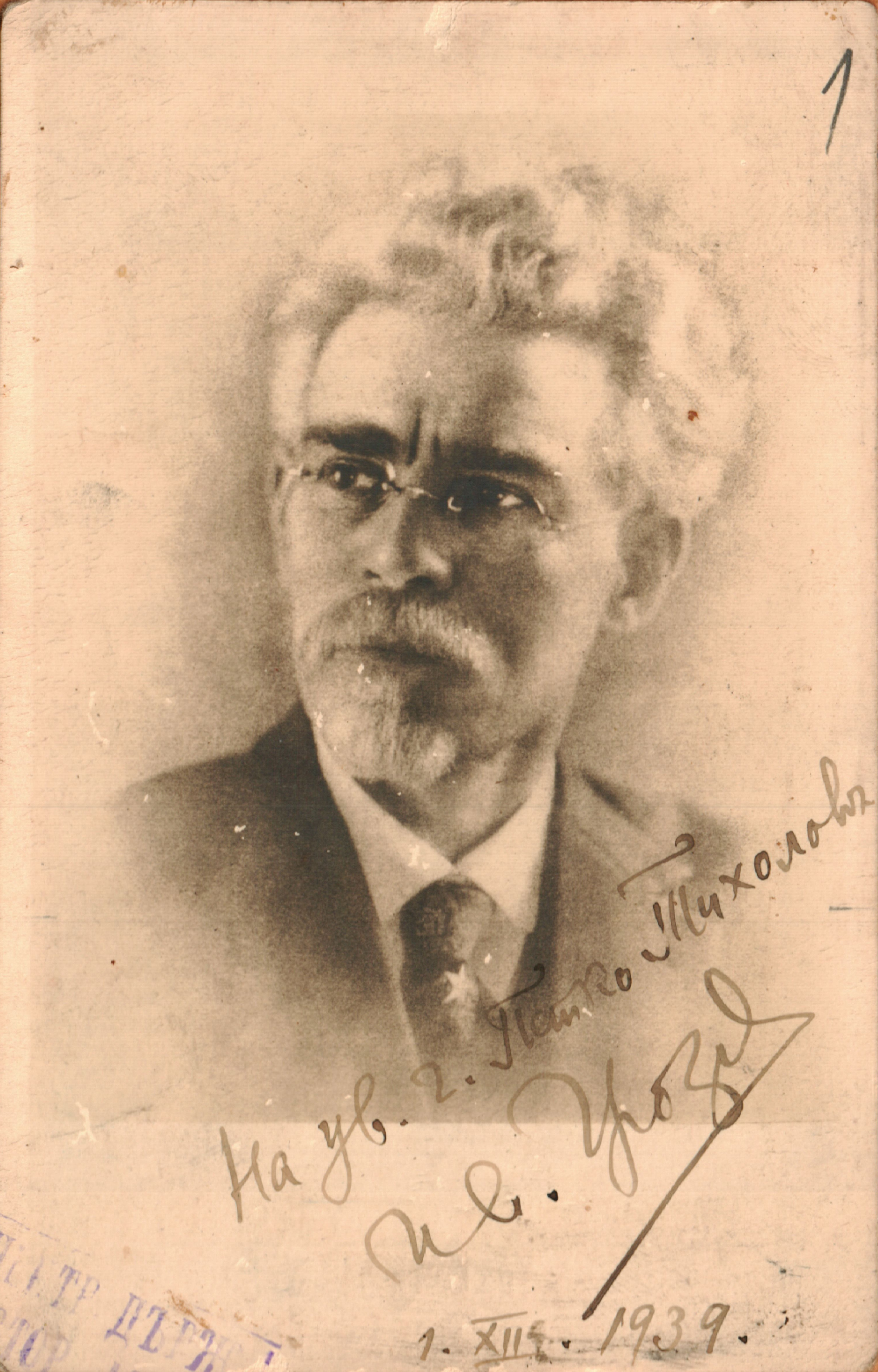 Bulgarian writer and dramatist Ivan Grozev.